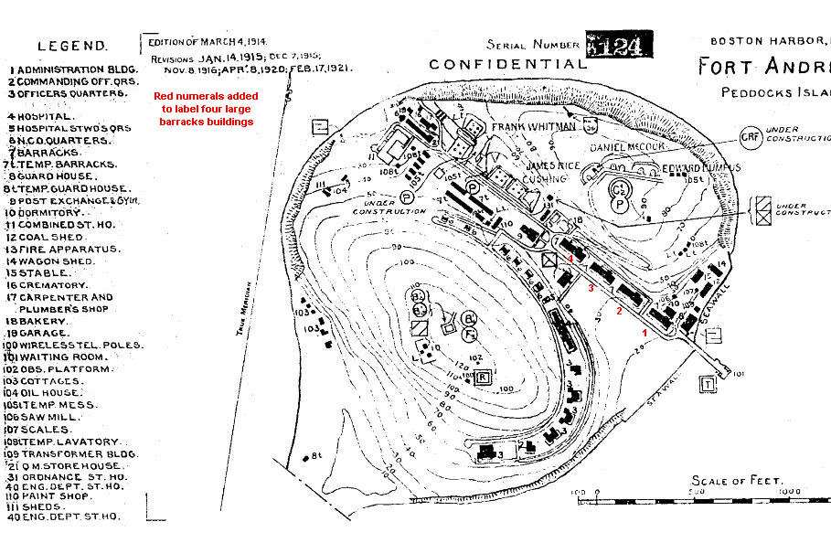 This map of Ft. Andrews, updated to 1921, comes from the U.S. Engineers' Reports of Completed Works for the harbor defenses of Boston, MA, as contained on a DVD of original file copies from the National Archives digitized and supplied by the Coast Defense Study Group, McLean, VA, 2010. The red numerals were added in 2010 by Paul Grigorieff to distinguish the four enlisted men's barracks.